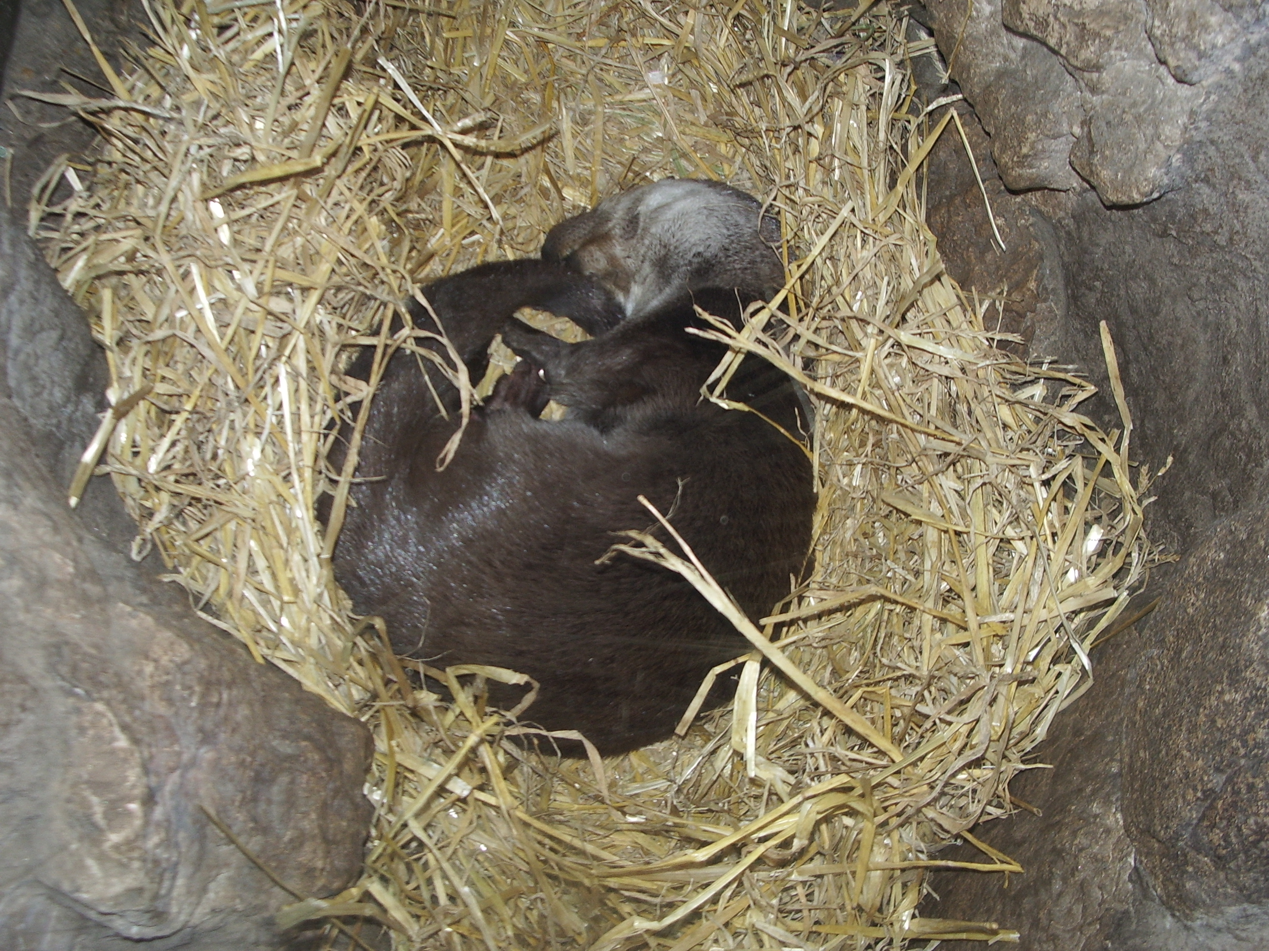 Eurasian otter in holt at Highland Wildlife Park.